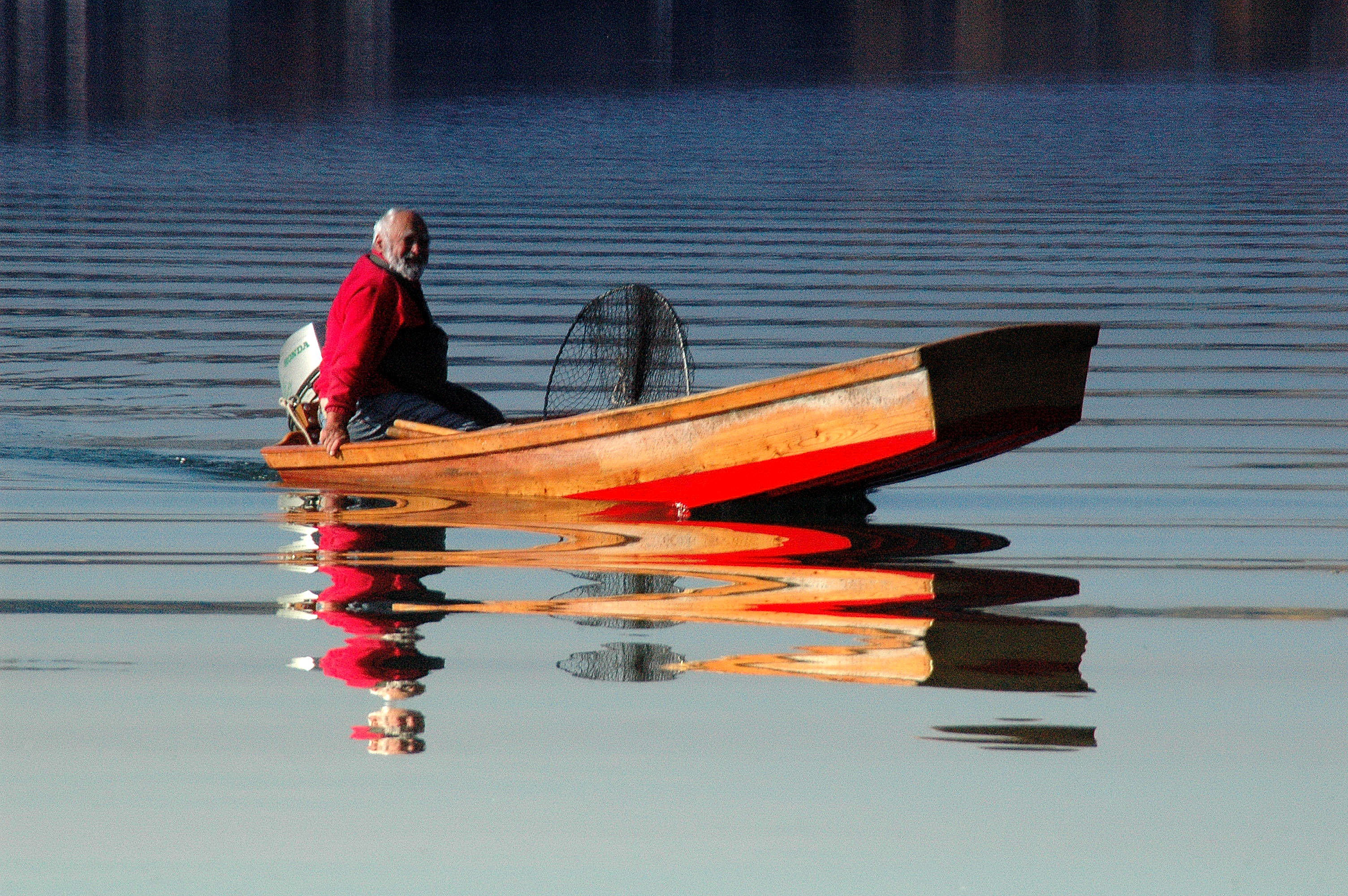 Fisherman in his boat on the Lake Woerth, municipality Pörtschach am Wörthersee, district Klagenfurt Land, Carinthia, Austria, EU